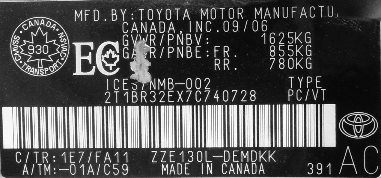 Identification plate of a Toyota Corolla 2007 built in Canada